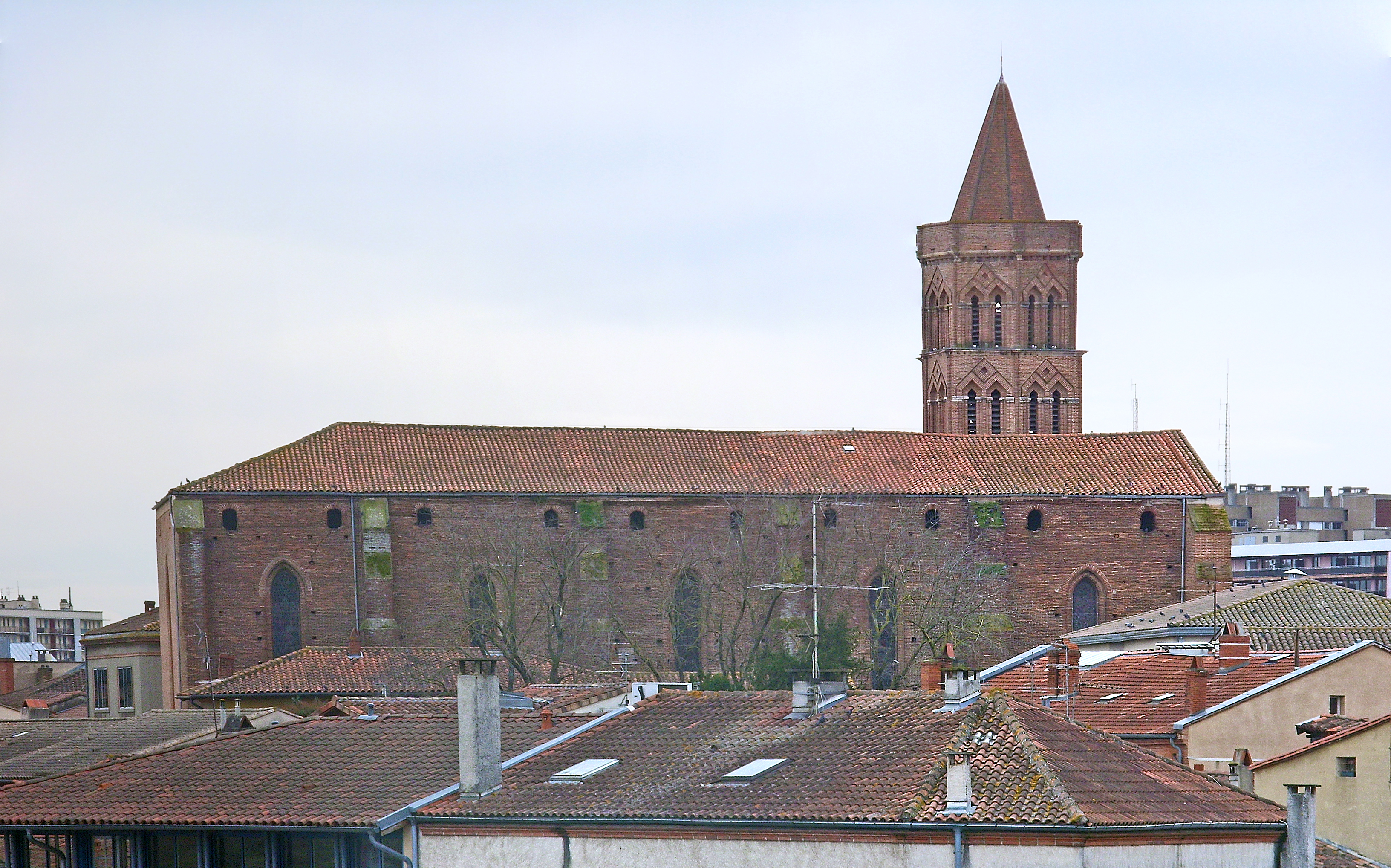 Saint Nicolas Church from Toulouse.